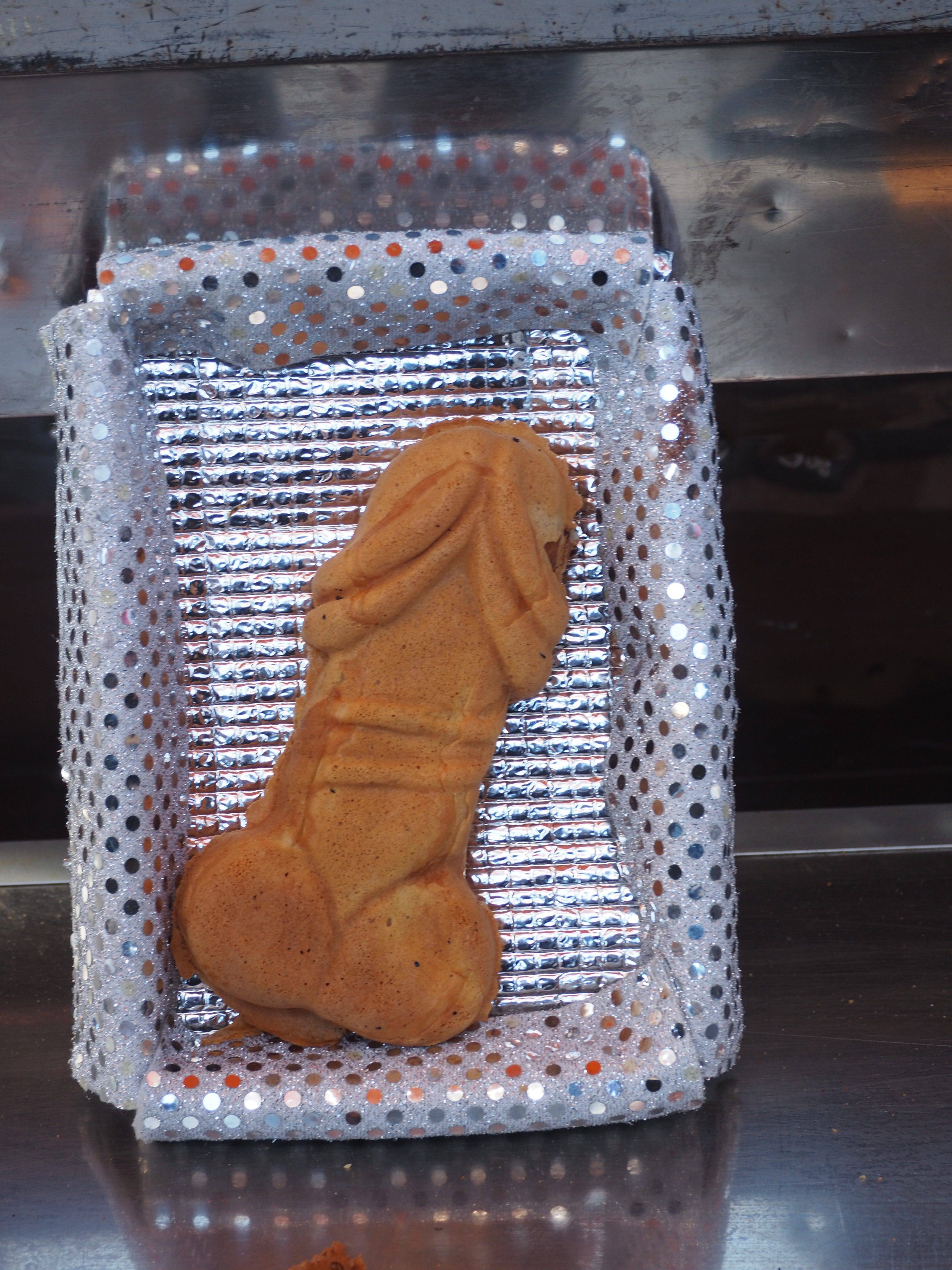 Phallus cake, Hōnen Matsuri (Tagata Shrine) , Komaki city, Aichi pref, Japan